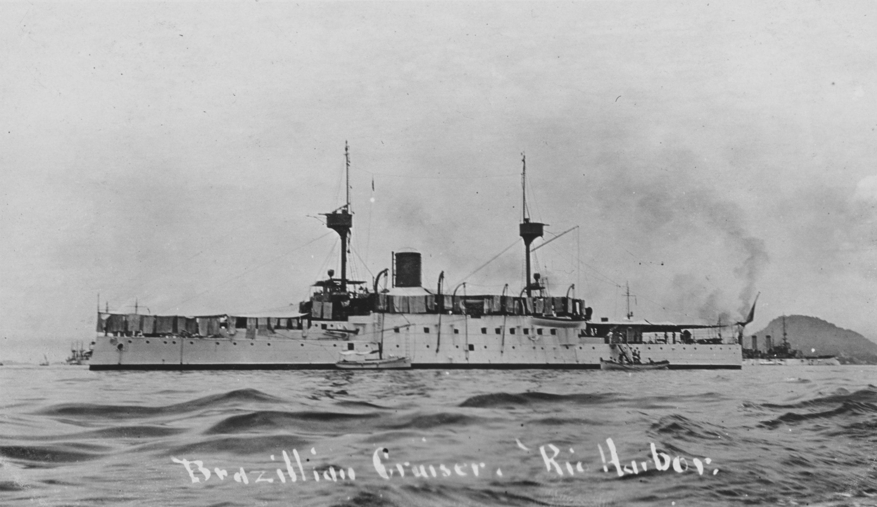 "In Rio de Janeiro harbor, Brazil, during the U.S. Atlantic Fleet's visit there while en route to the Pacific, circa 12-22 January 1908. This ship is either Marshal Deodoro (launched 1898) or Marshal Floriano (launched 1899). A U.S. Navy battleship is partially visible in the right background."